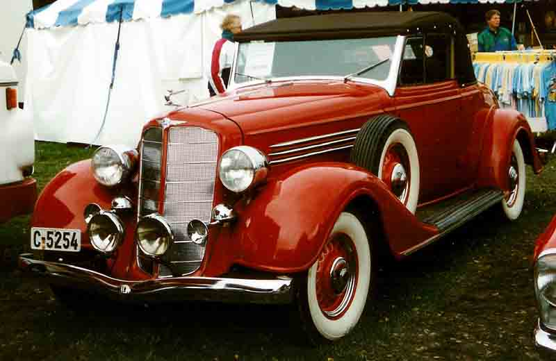 1934 Buick Series 50 Model 56C Convertible Coupe